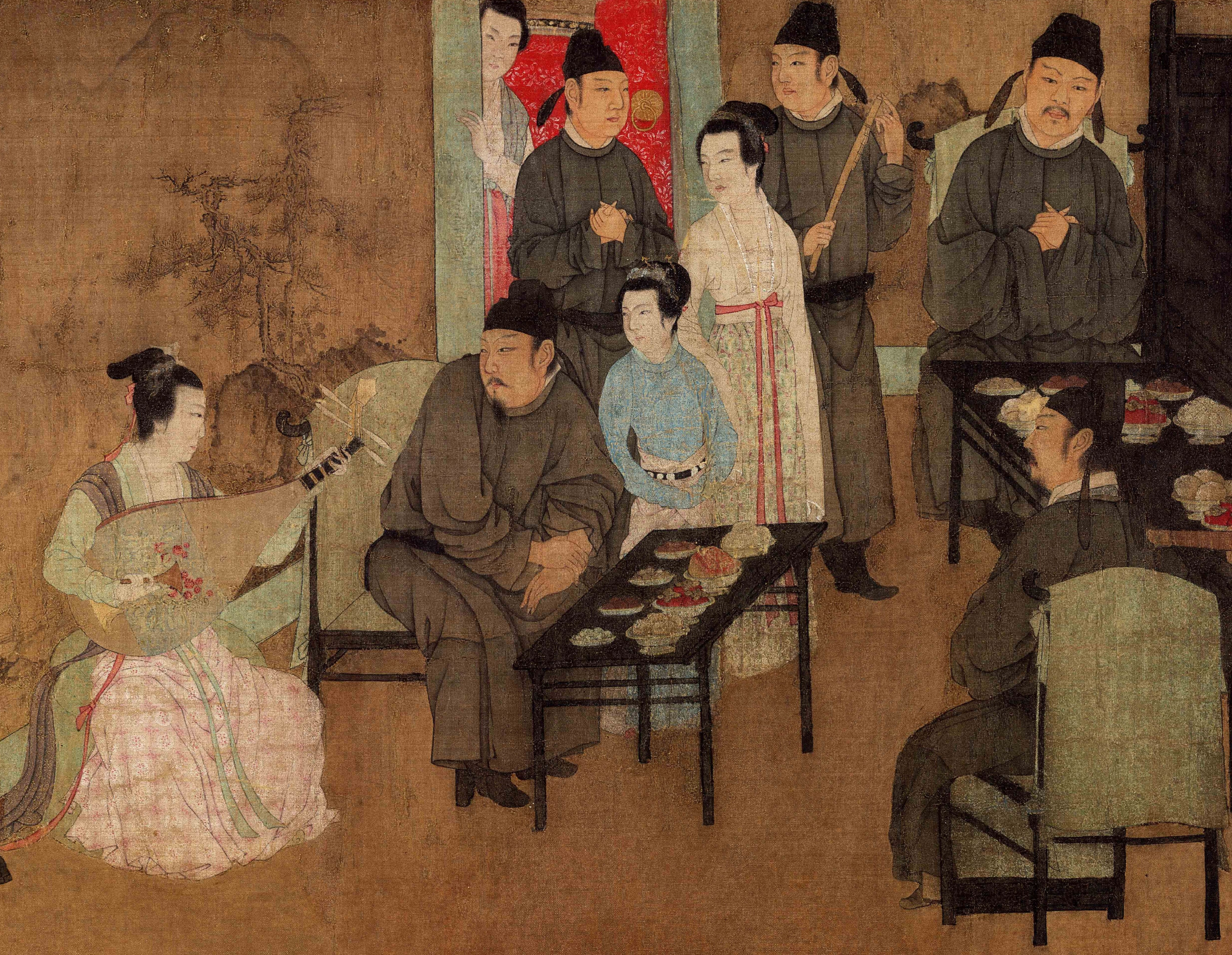 Close-up detail of the Chinese painting Night Revels, handscroll, ink and colors on silk, 28.7 x 335.5 cm.